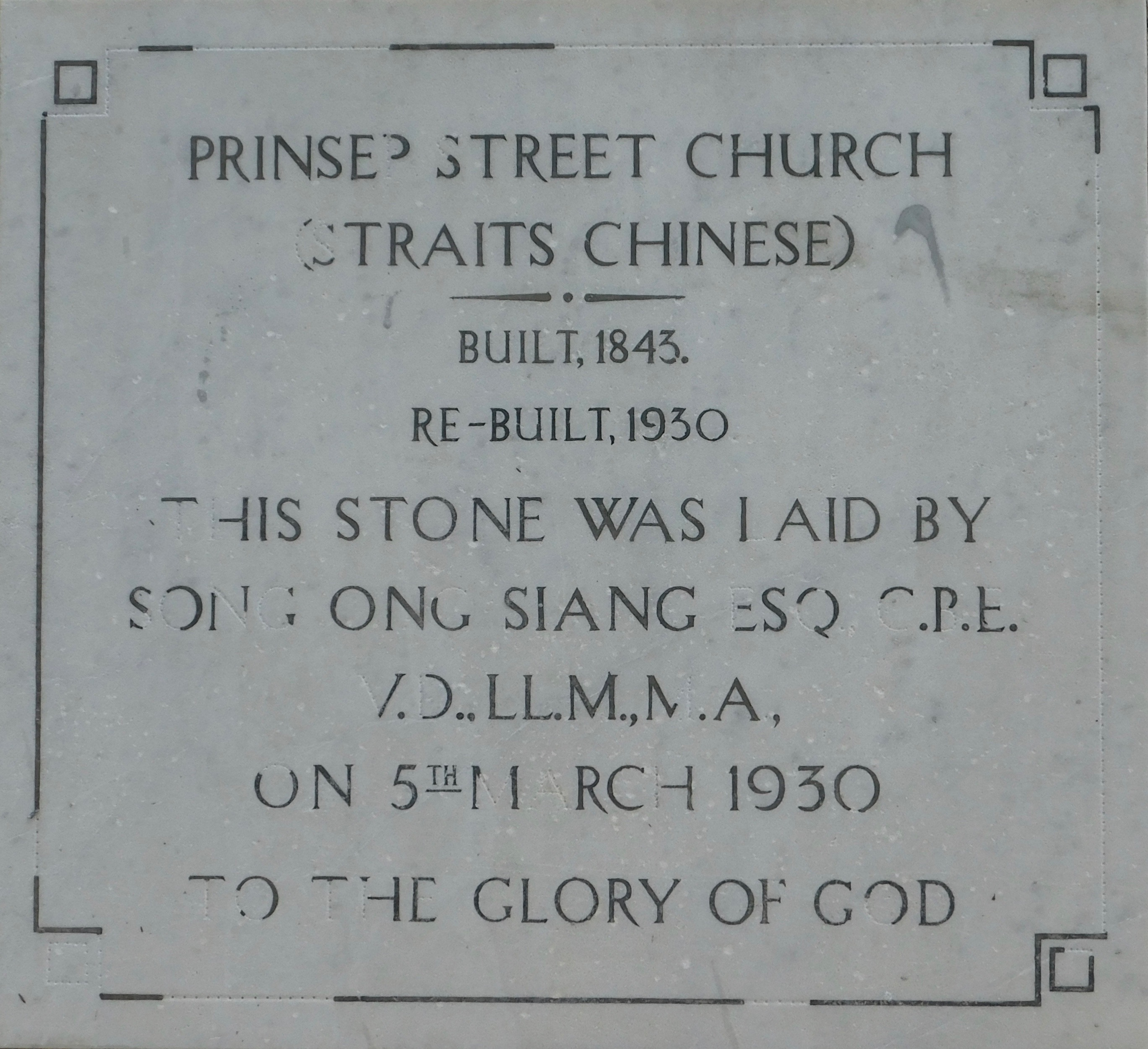 Foundation stone of Prinsep Street Presbyterian Church (c. 1930).